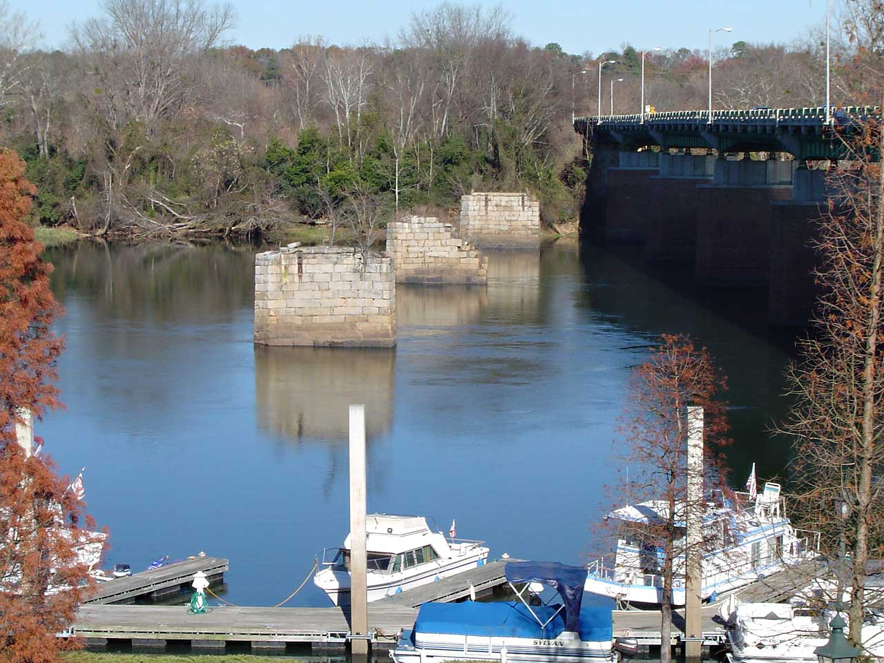 Location of the dead town of Hamburg, South Carolina from the Savannah River marina at downtown Augusta, Georgia. The 1932 Jefferson Davis bridge to the right, which carried US Routes 1 and 78 until 1967, is on the same site as Wade Hampton's 18th century bridges and of Henry Shultz's 1814 bridge. The stonework piers carried the South Carolina Railroad bridge from 1854 until its loss in a flood in 1908. Photo taken December 2003